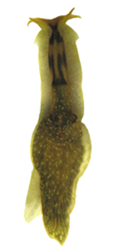 photo of Acochlidium fijiiensis